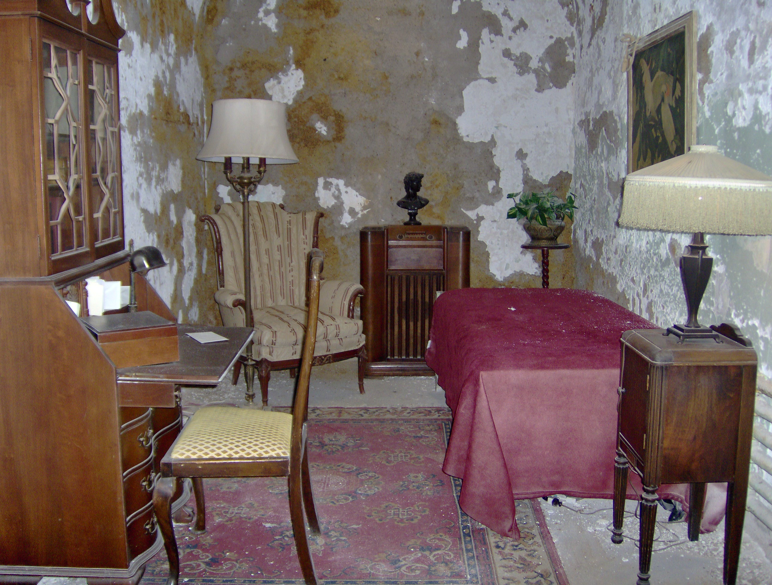 Al Capone's cell at Eastern State Penitentiary, Philadelphia, PA.